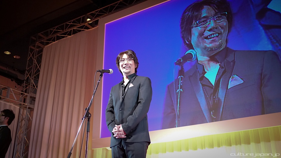 Takanori Aki, Chief Executive Officer of the Good Smile Company, Inc., attended a event of the Good Smile Company 10th Anniversary at the Bellesalle Akihabara in Chiyoda Ward, Tōkyō Metropolis on May 2, 2011.